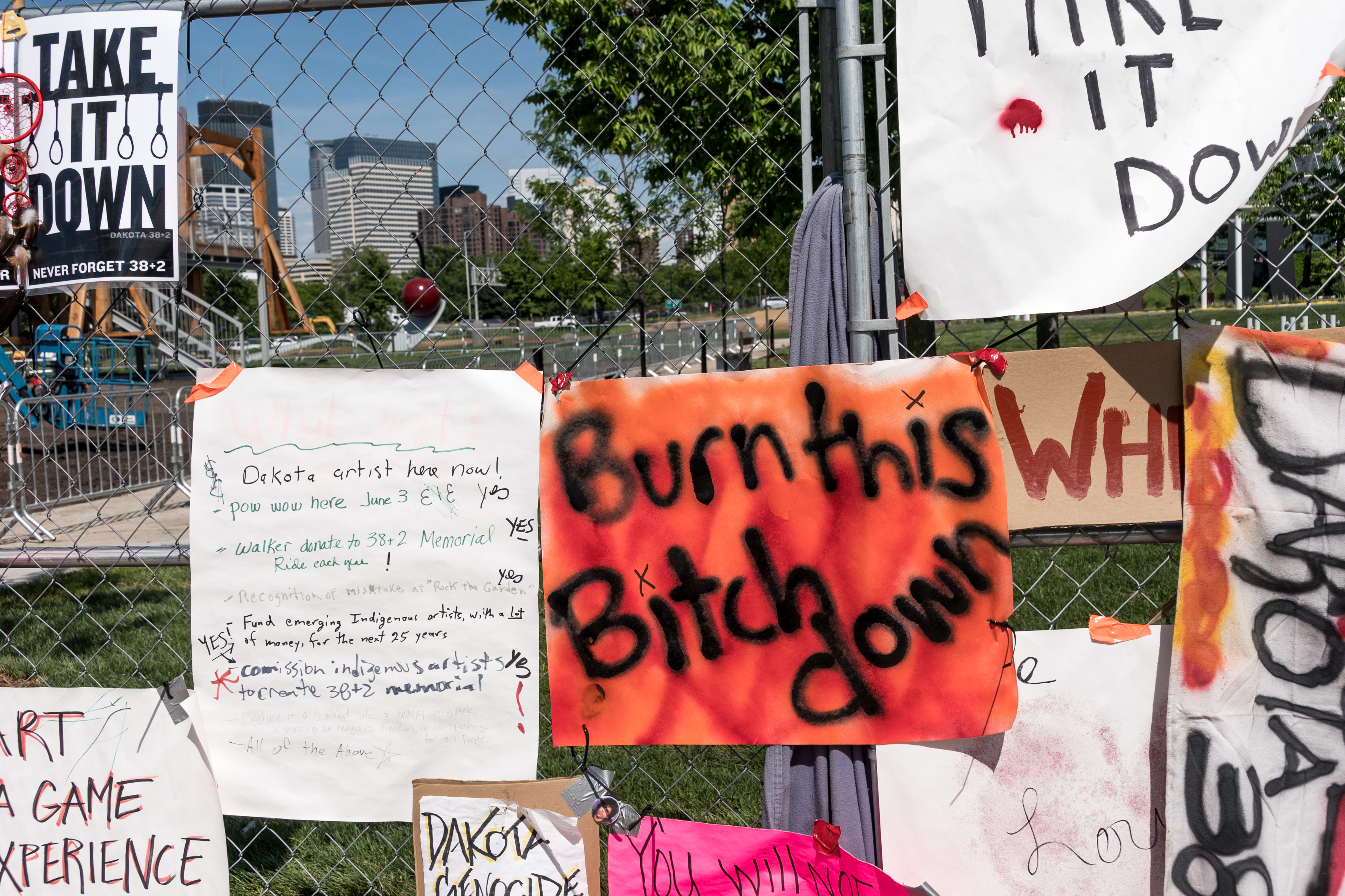 Protests at Walker Art Center in Minneapolis, Minnesota, over the sculpture Scaffold by artist Sam Durant.